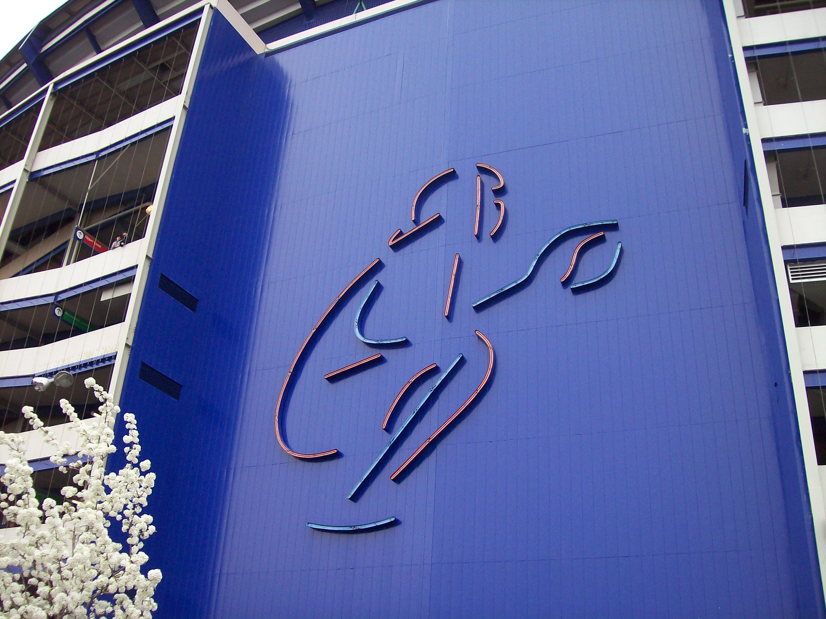 I took this myself at a game on April 25, 2007 15:38, 22 June 2008 . . Stadium08 . . 2,848×2,134 (1.01 MB)